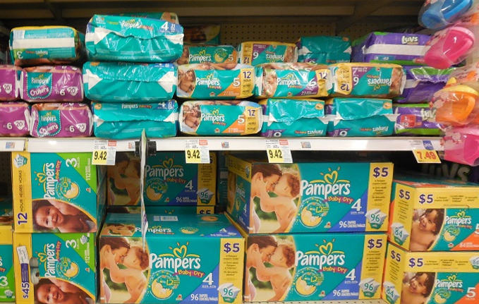 Pampers Diapers at Kroger